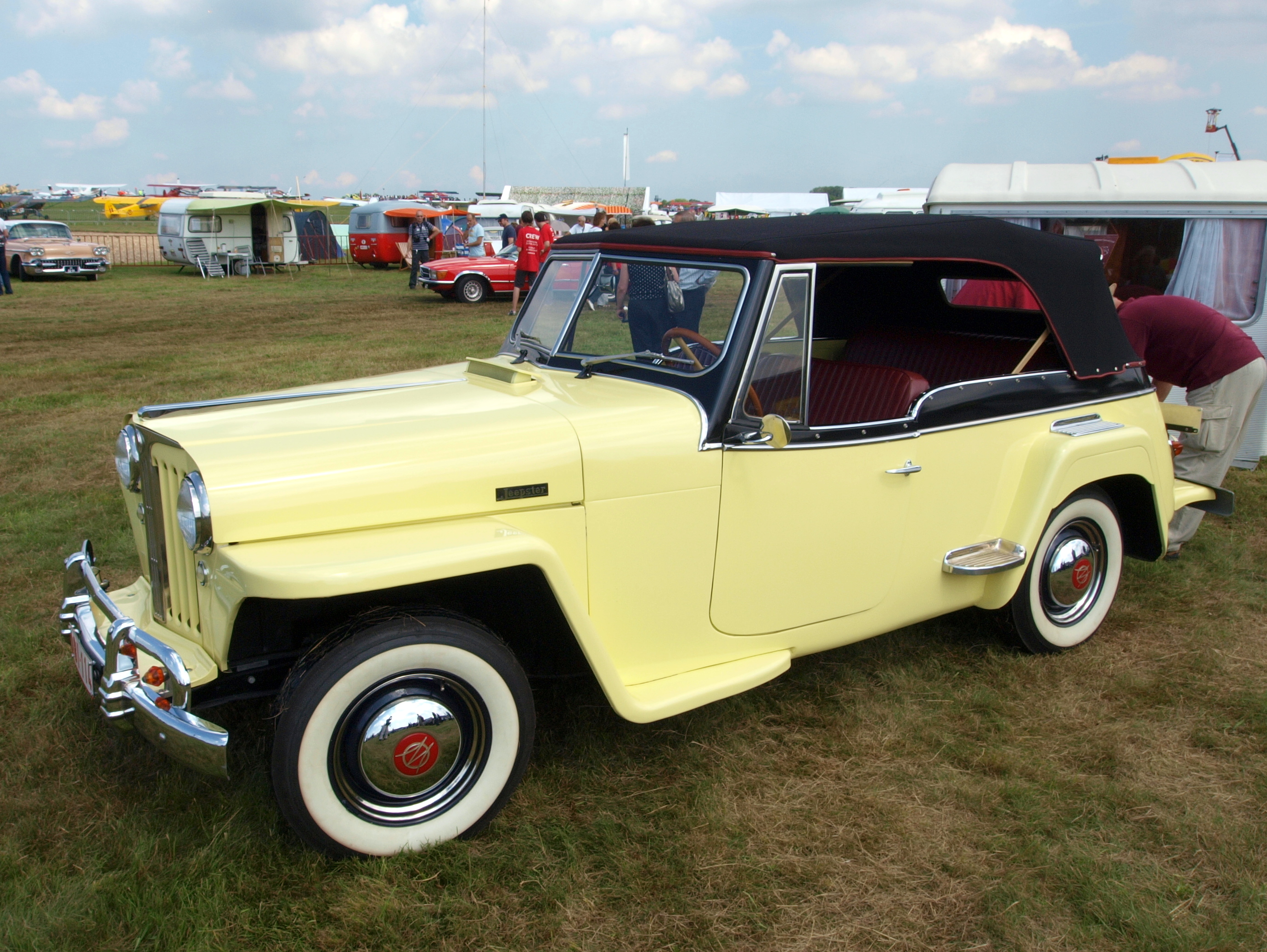 Photographed at The International Oldtimer Fly and Drive In 2010, Schaffen-Diest, Belgium.